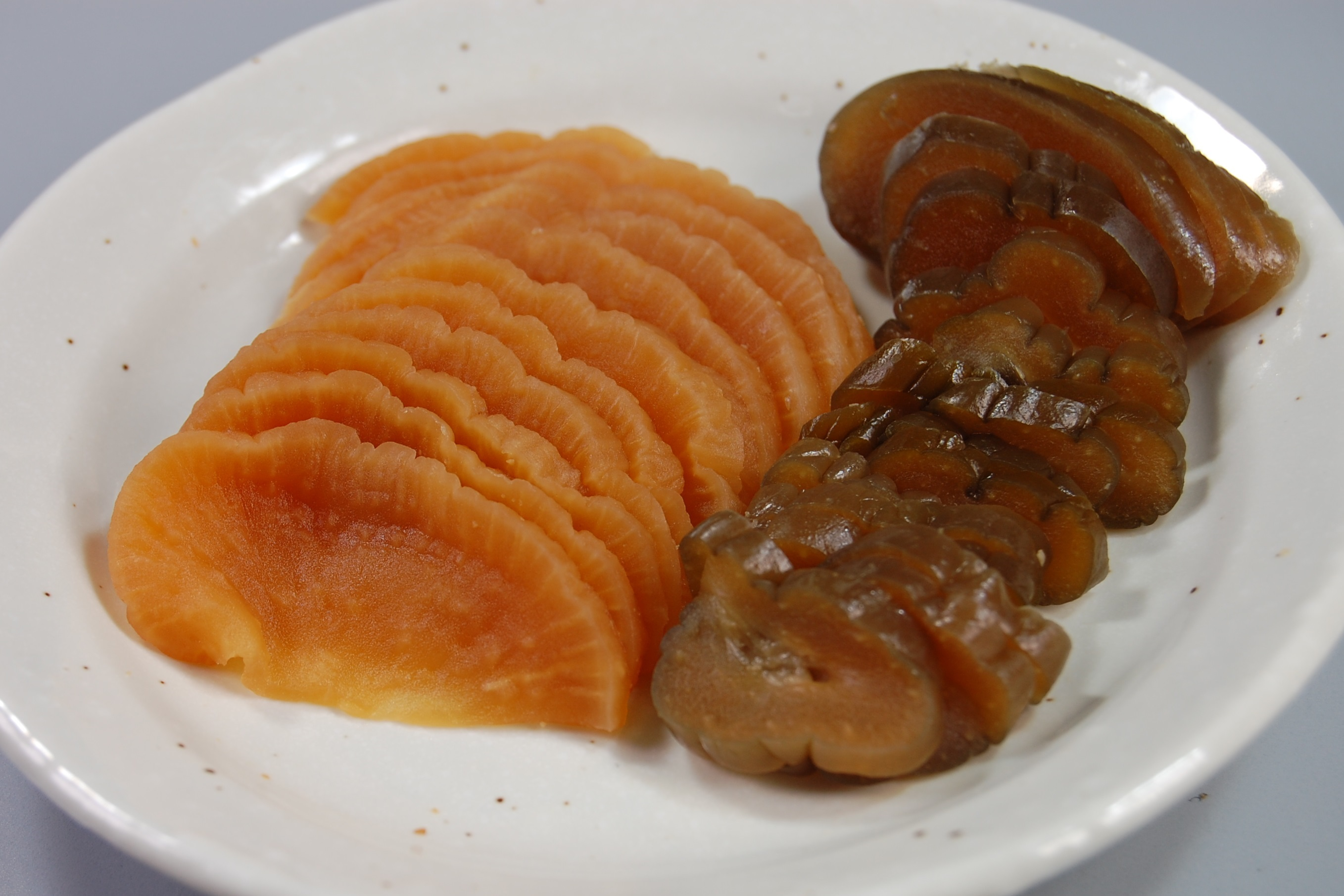 Misozuke (Miso picles) of daikon radish and cucumber made by Aizu-tenpo Co.,Ltd., Aizuwakamatsu, Fukushima, Japan.